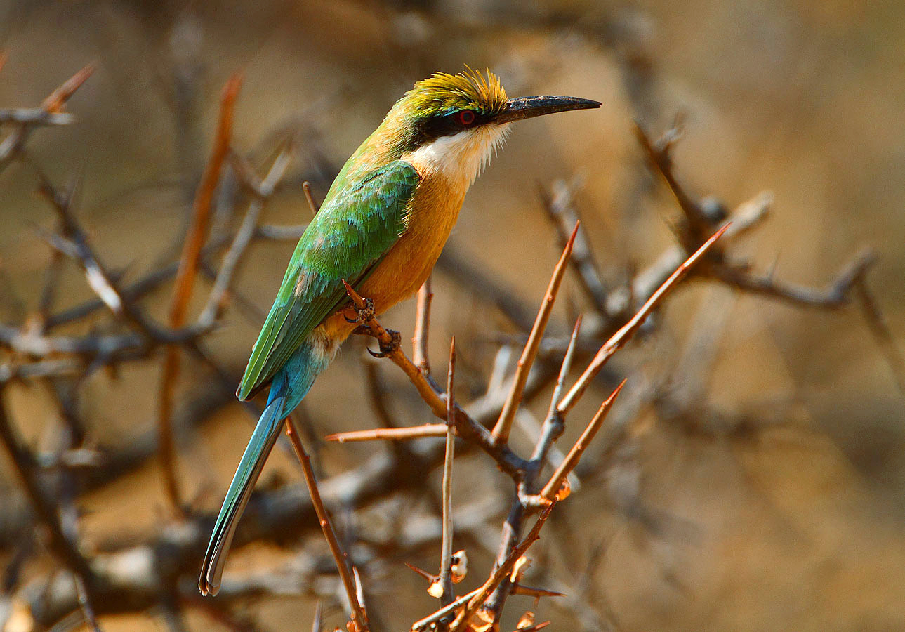 This Bee-eater is confined to the Horn of Africa and adjacent Kenya.